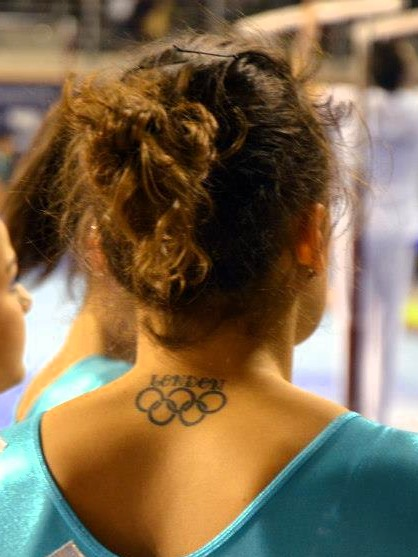 Elisabetta Preziosa. Ancona, 9th february 2013